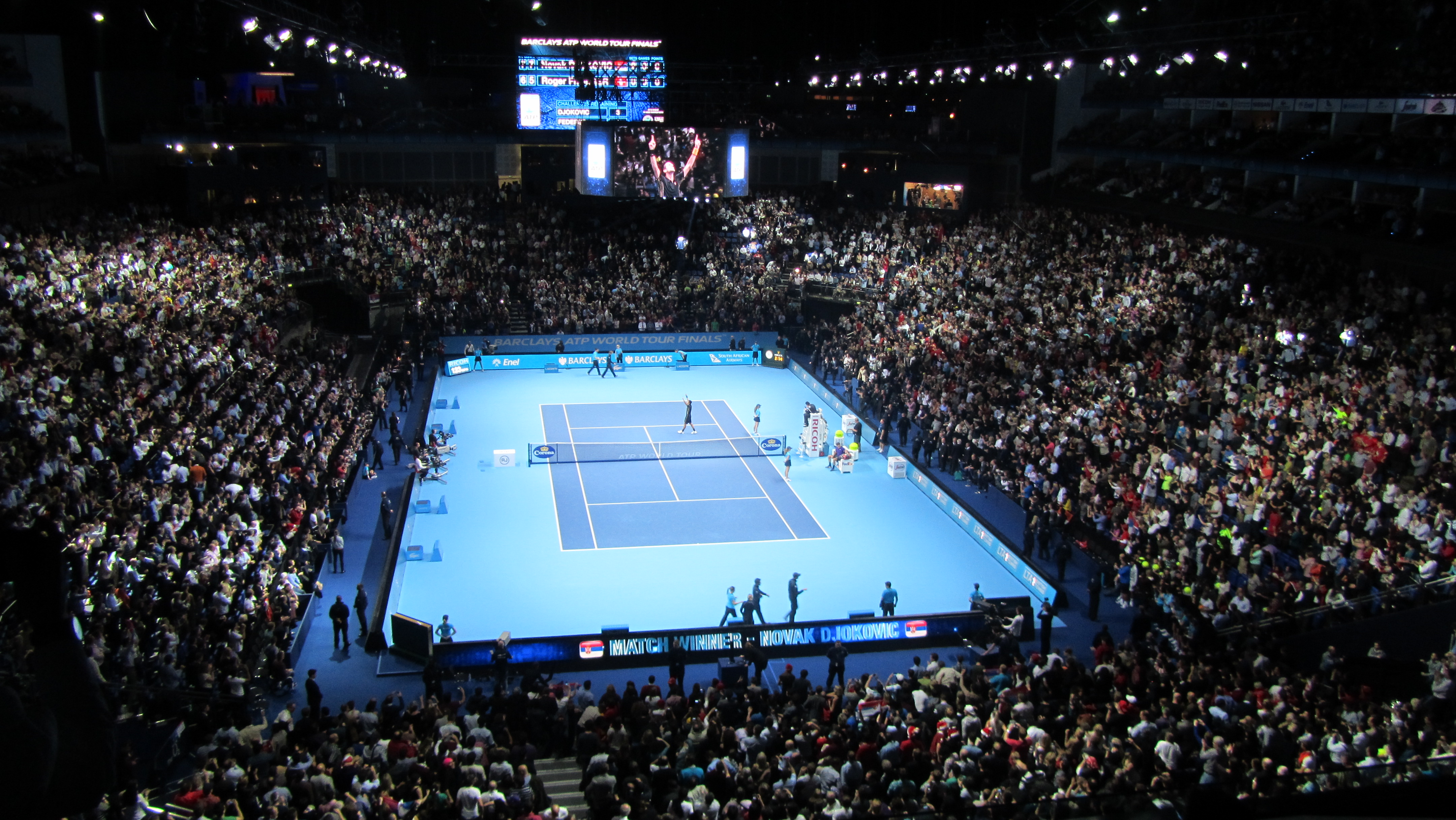 Novak Djokovic beats Roger Federer in the final tennis match